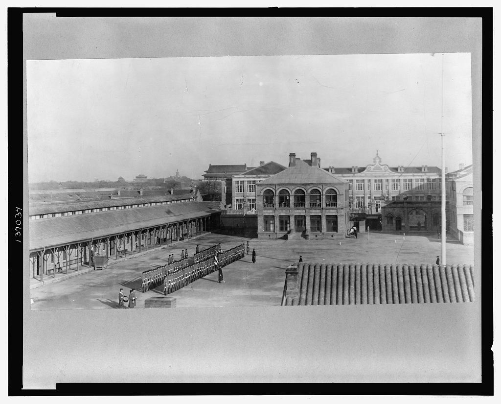 Photograph shows U.S. Marines in formation on the grounds of the U.S. Legation, Beijing, China.